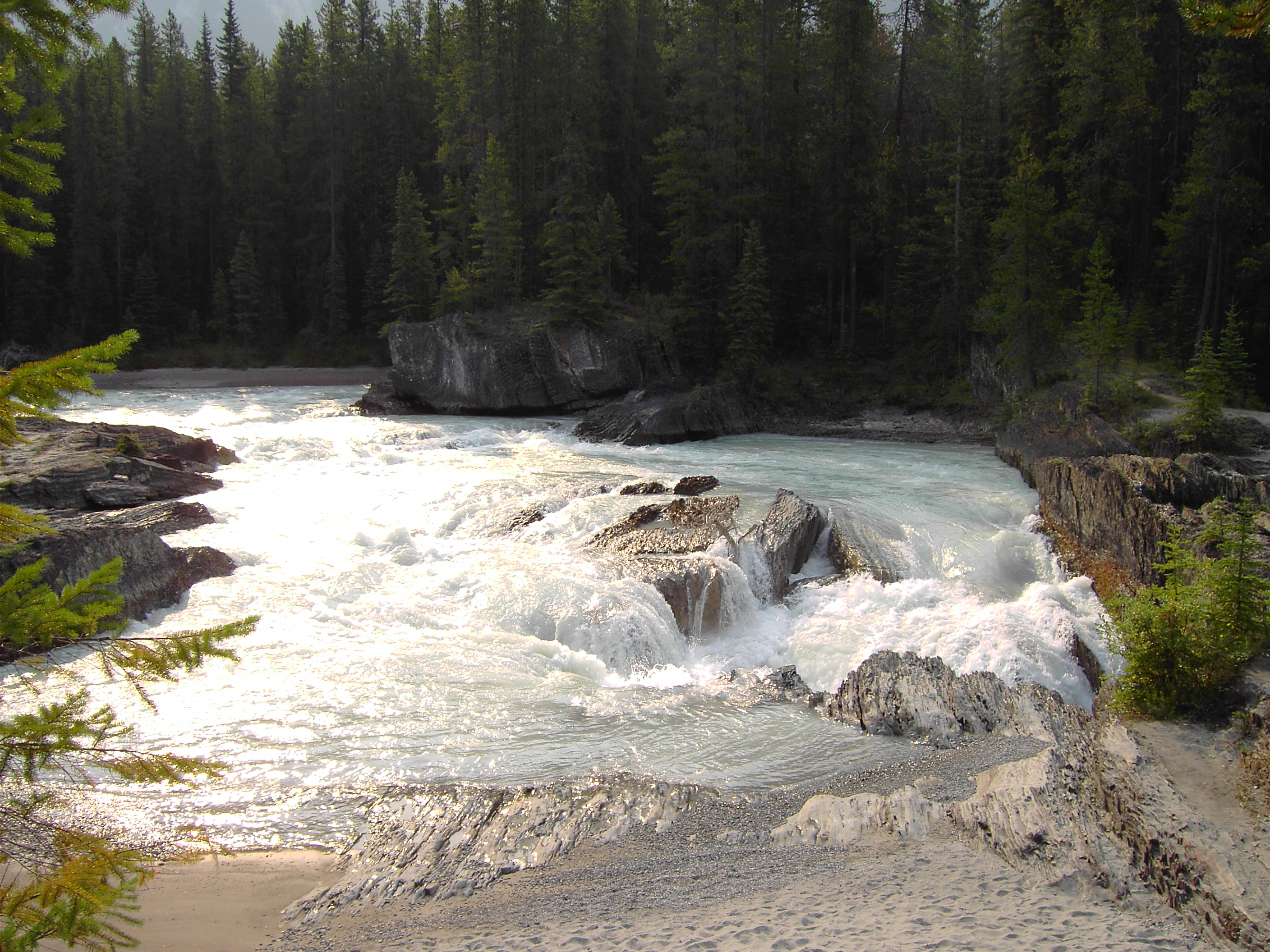 Photo of Kicking Horse River